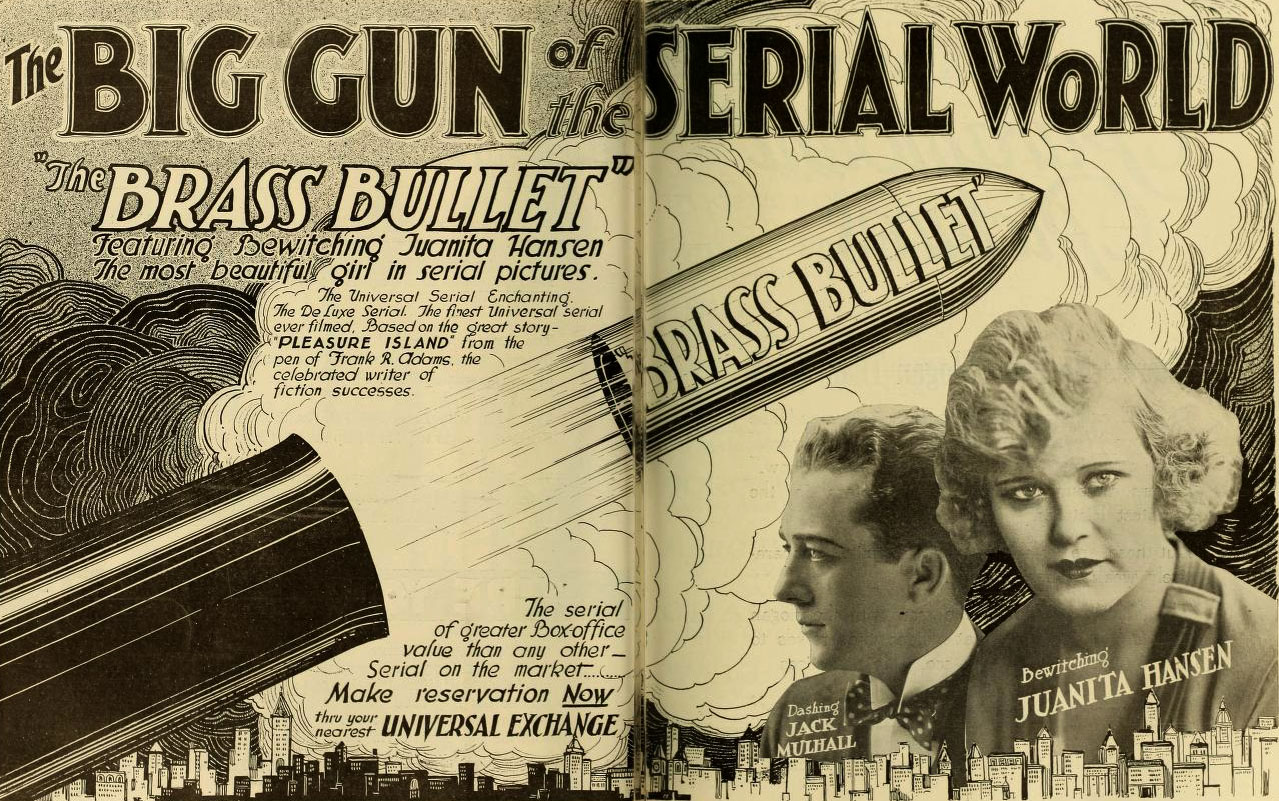 Advertisement in Moving Picture World, May 1918 for the American film serial The Brass Bullet (1918).